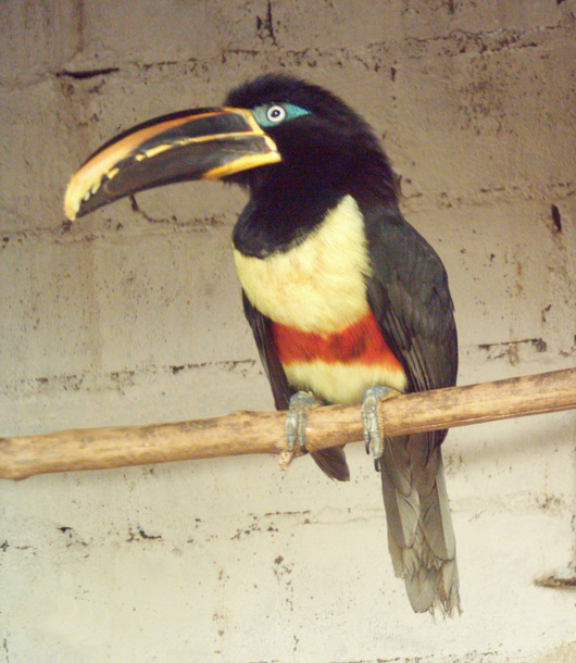 Chestnut-eared Aracari at Chanchamayo Zoologico.